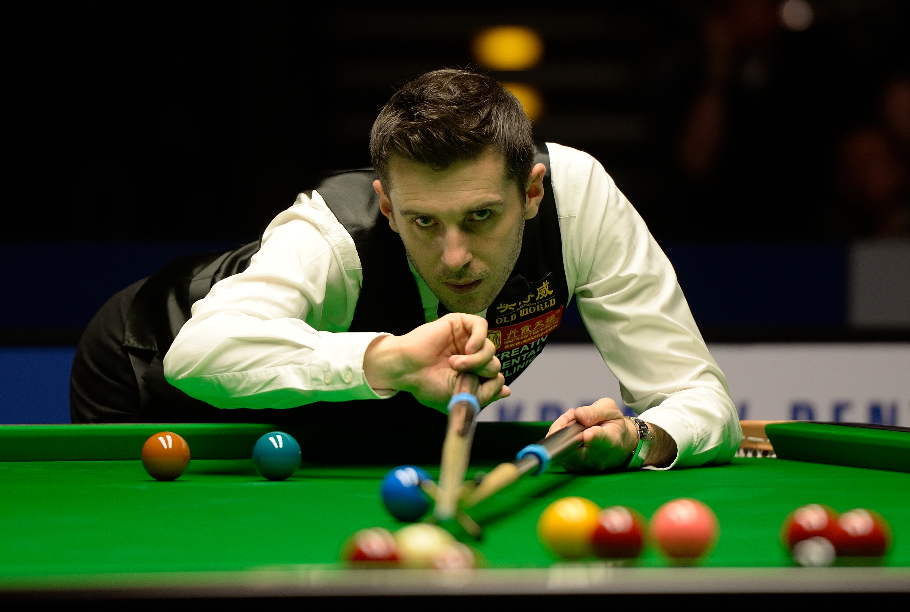 Picture taken in Berlin during the Snooker German Masters in 2015. Mark Selby.